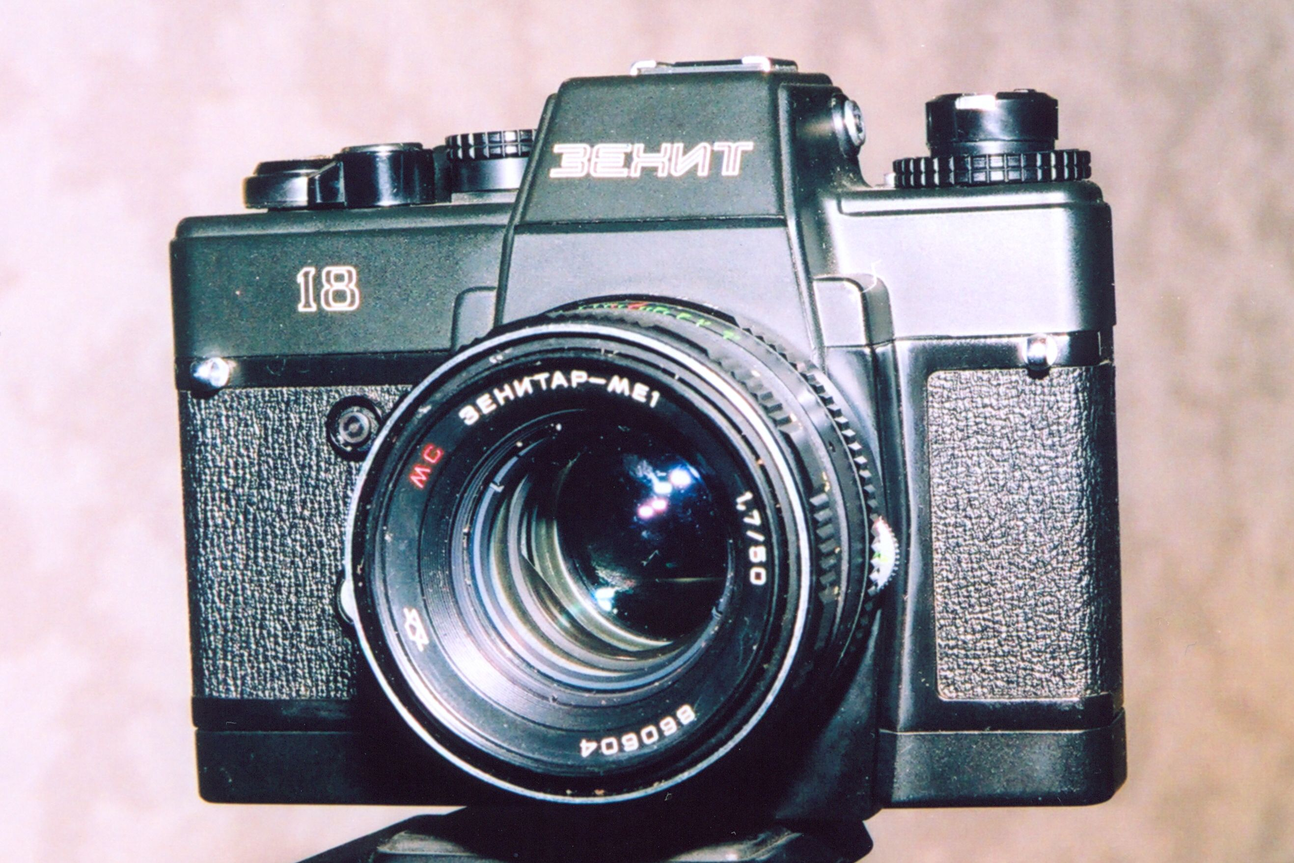 Фотоаппарат Зенит-18